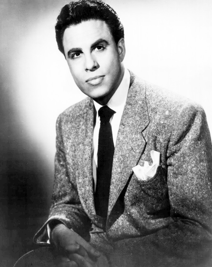 Photo of vocalist George London.